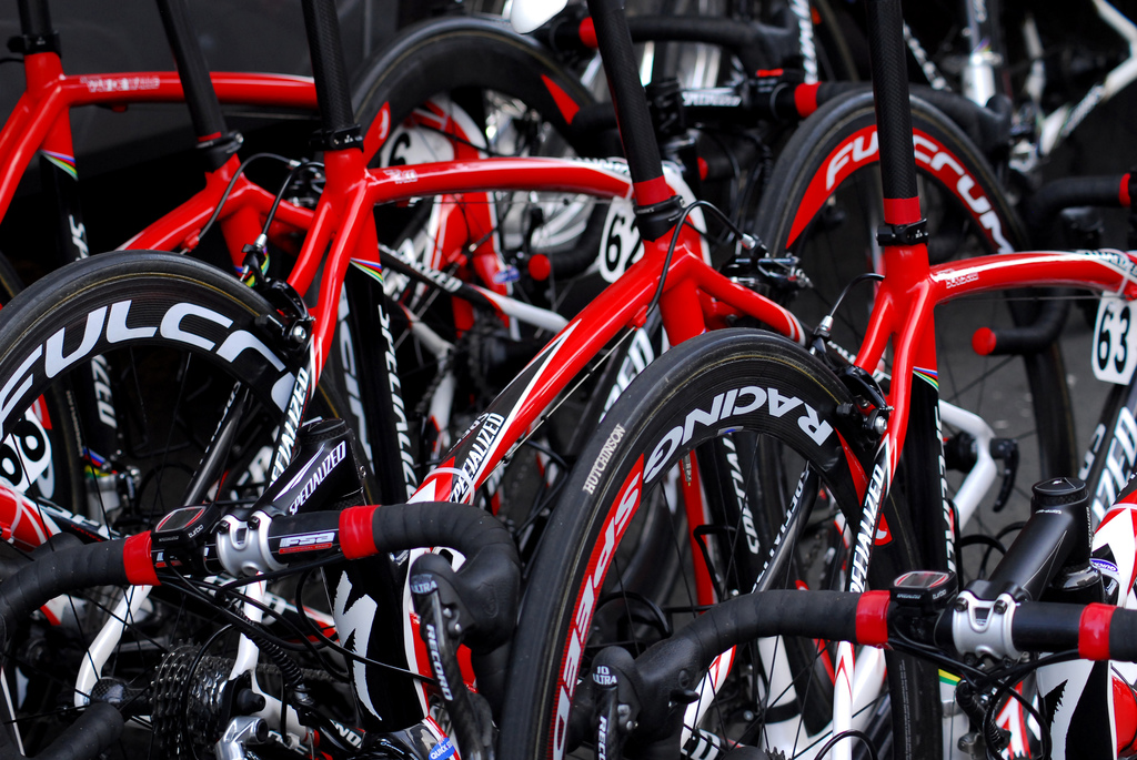 QuickStep Specialized bikes 2007